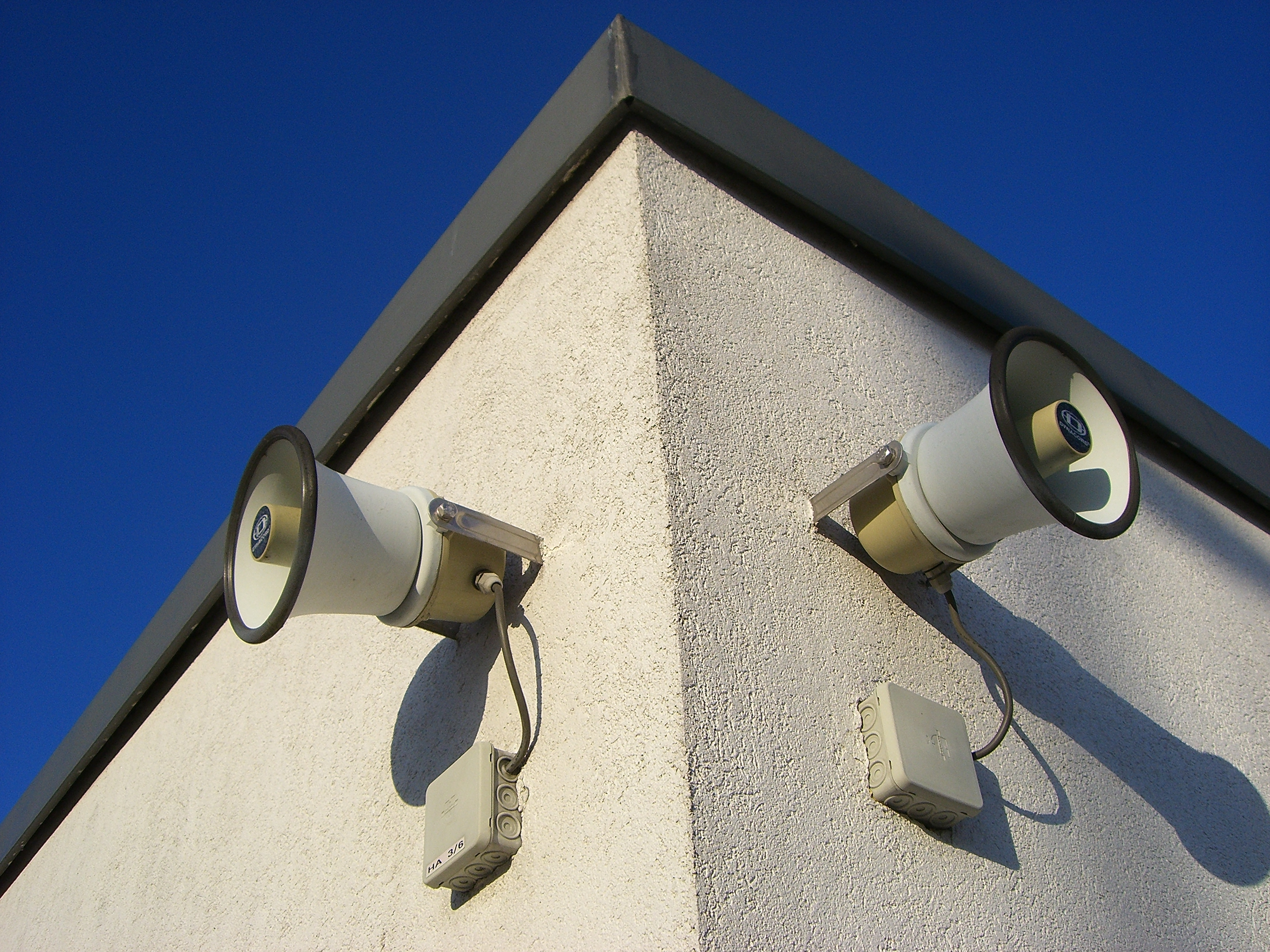 Two horn speakers on a corner